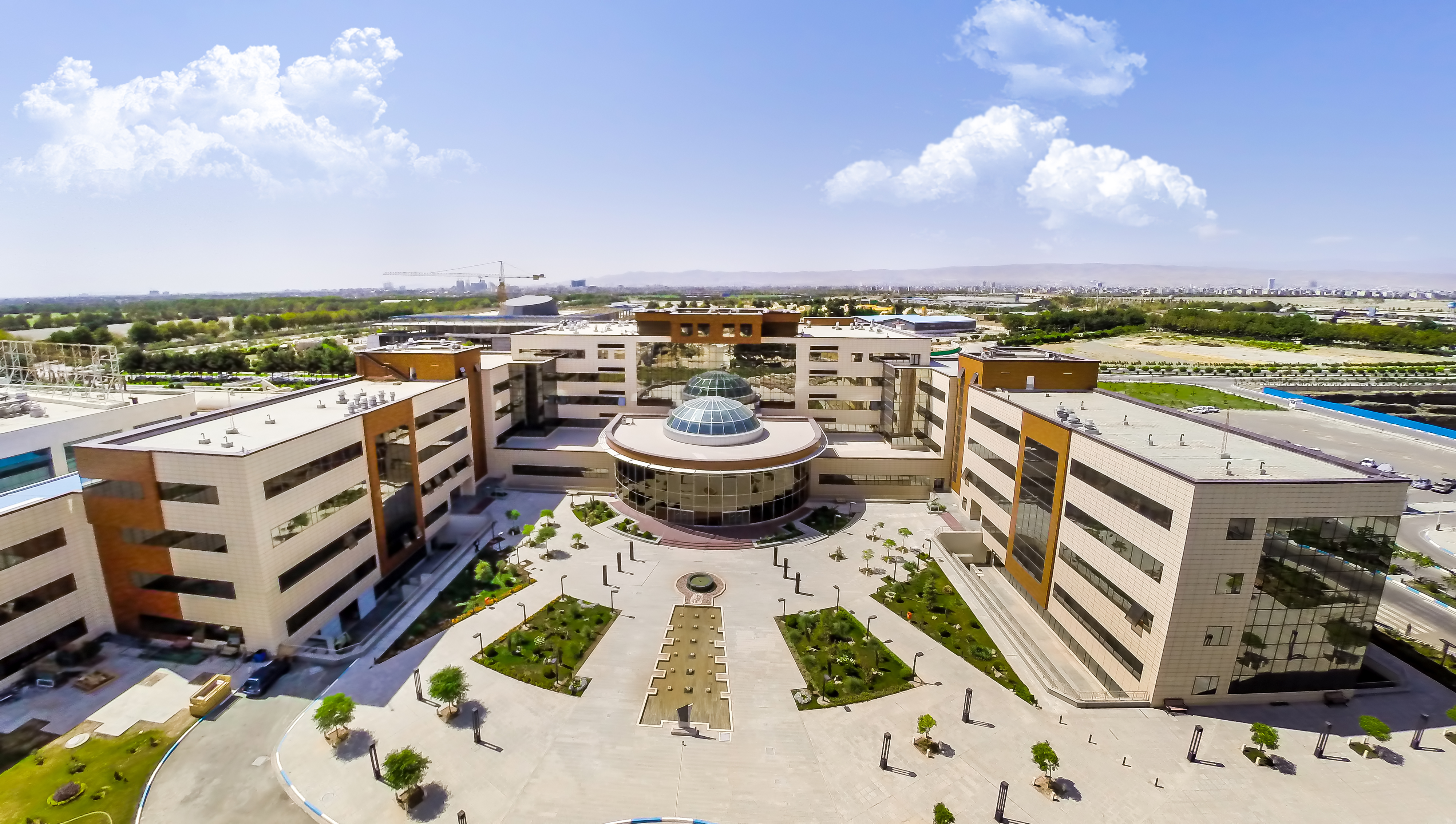 RazaviHospital_faz2